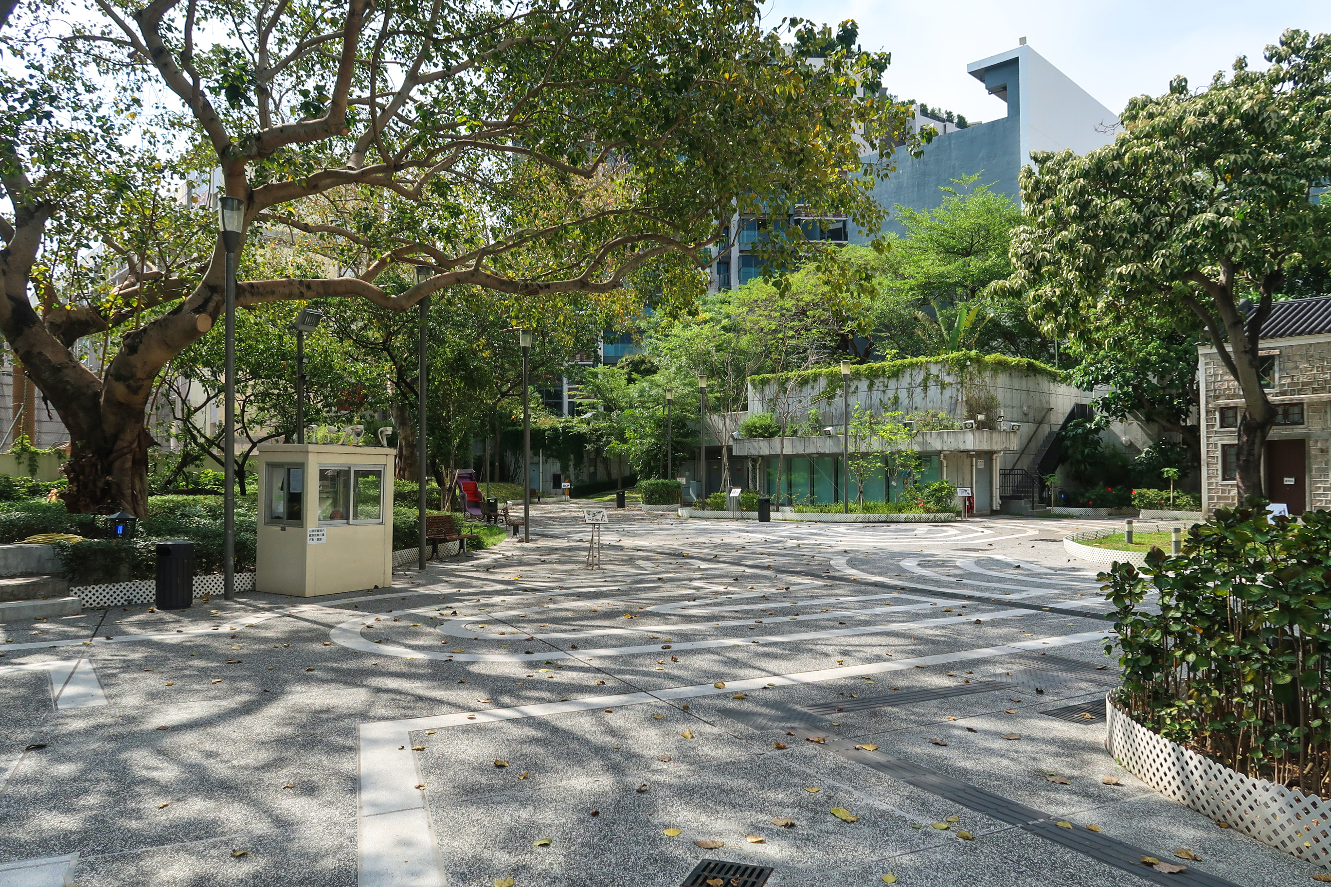 Stone Houses Family Garden